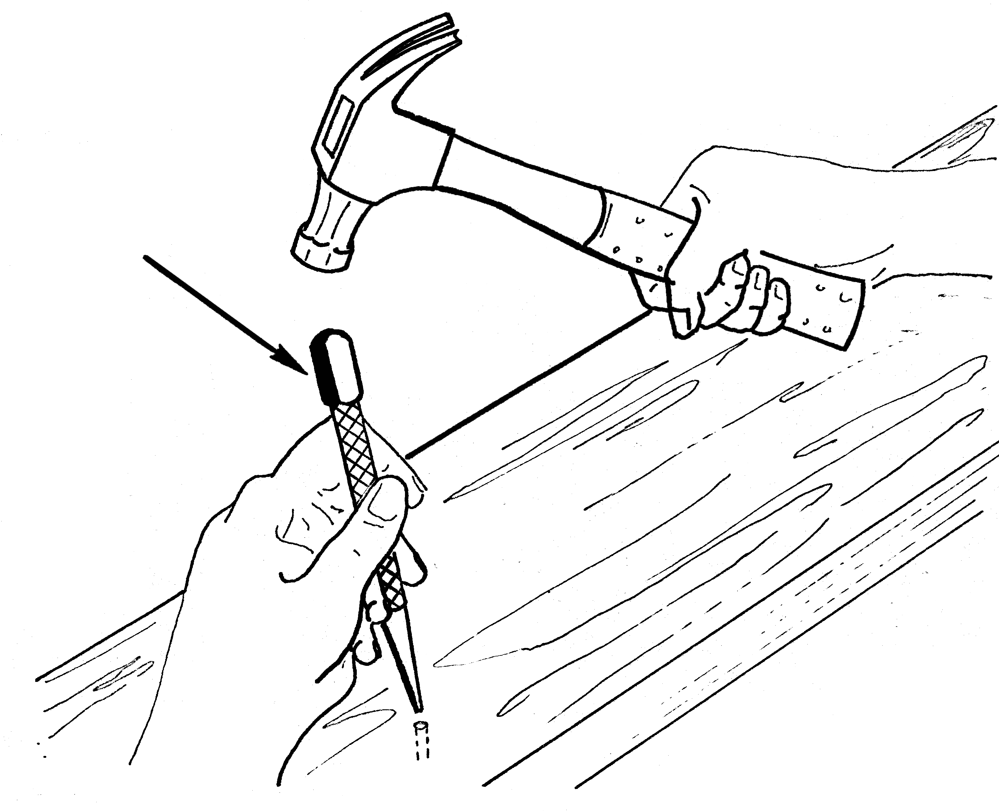 Line art drawing of Nailset.